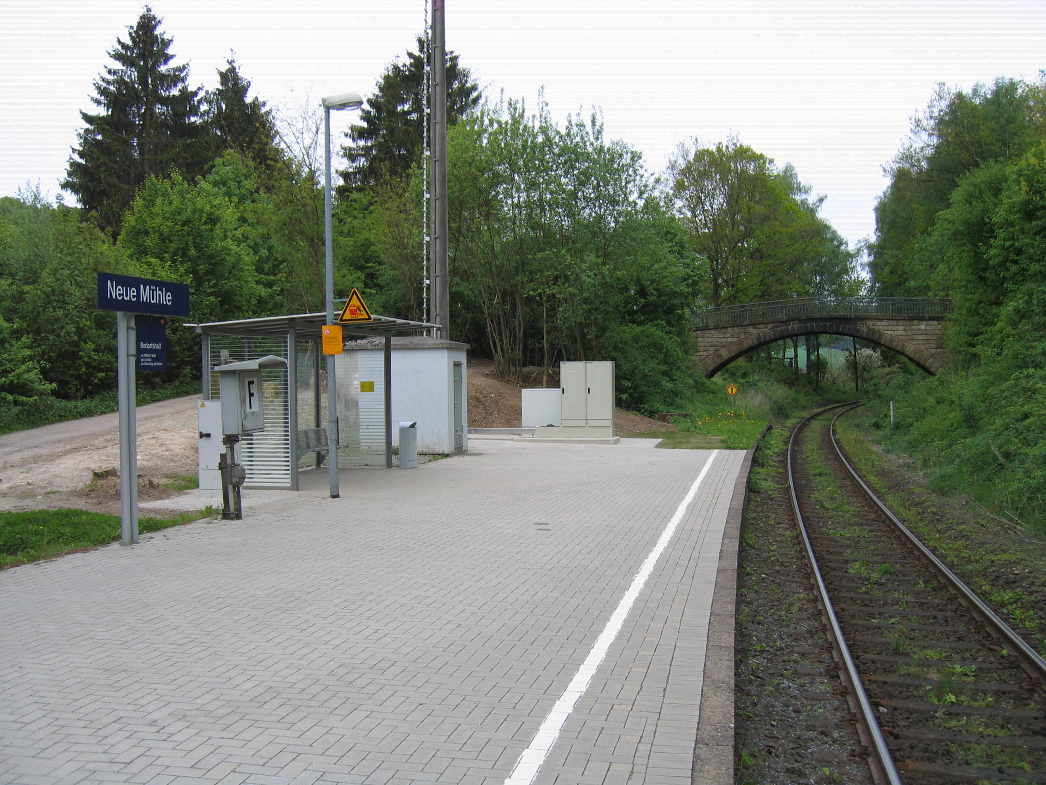 Train stop in Rödinghausen, District of Herford, North Rhine-Westphalia, Germany.